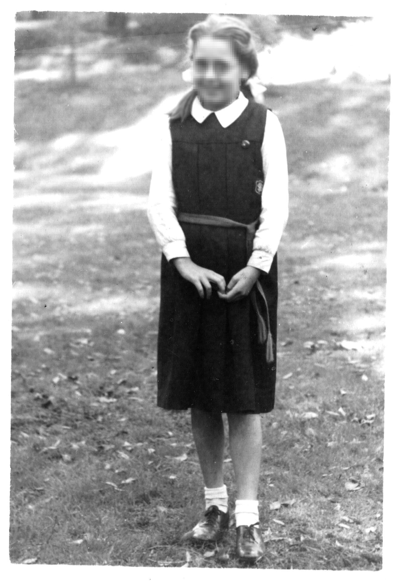 My mother granted me permission to use a photo of her in her school uniform on the pages about both school uniform, schools and 1950. She dose not mind it being used elsewhere by others on the Wiki if they wish to. She released the copy right rights to. It is a photo by her parents took of her in 1950, wearing her school uniform. I release all rights to it as it is my work from a family photo. I obscured her face using the GIMP art program since she is still alive as a old age pensioner.